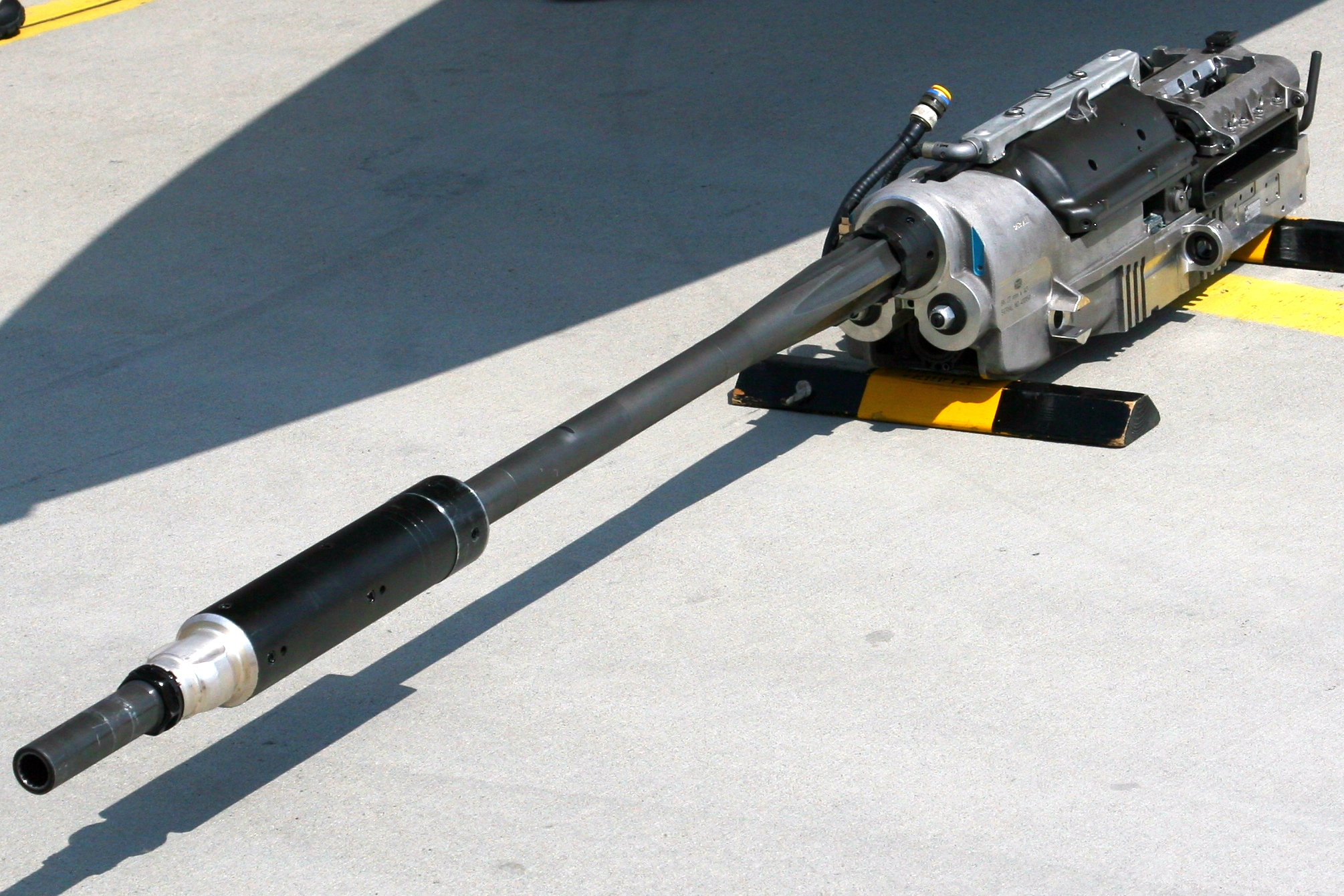 Mauser BK-27 aircraft cannon from Czech Air Forces’ JAS-39 Gripen. Taken during Open Day 2009 at AFB Čáslav (LKCV), the Czech Republic.